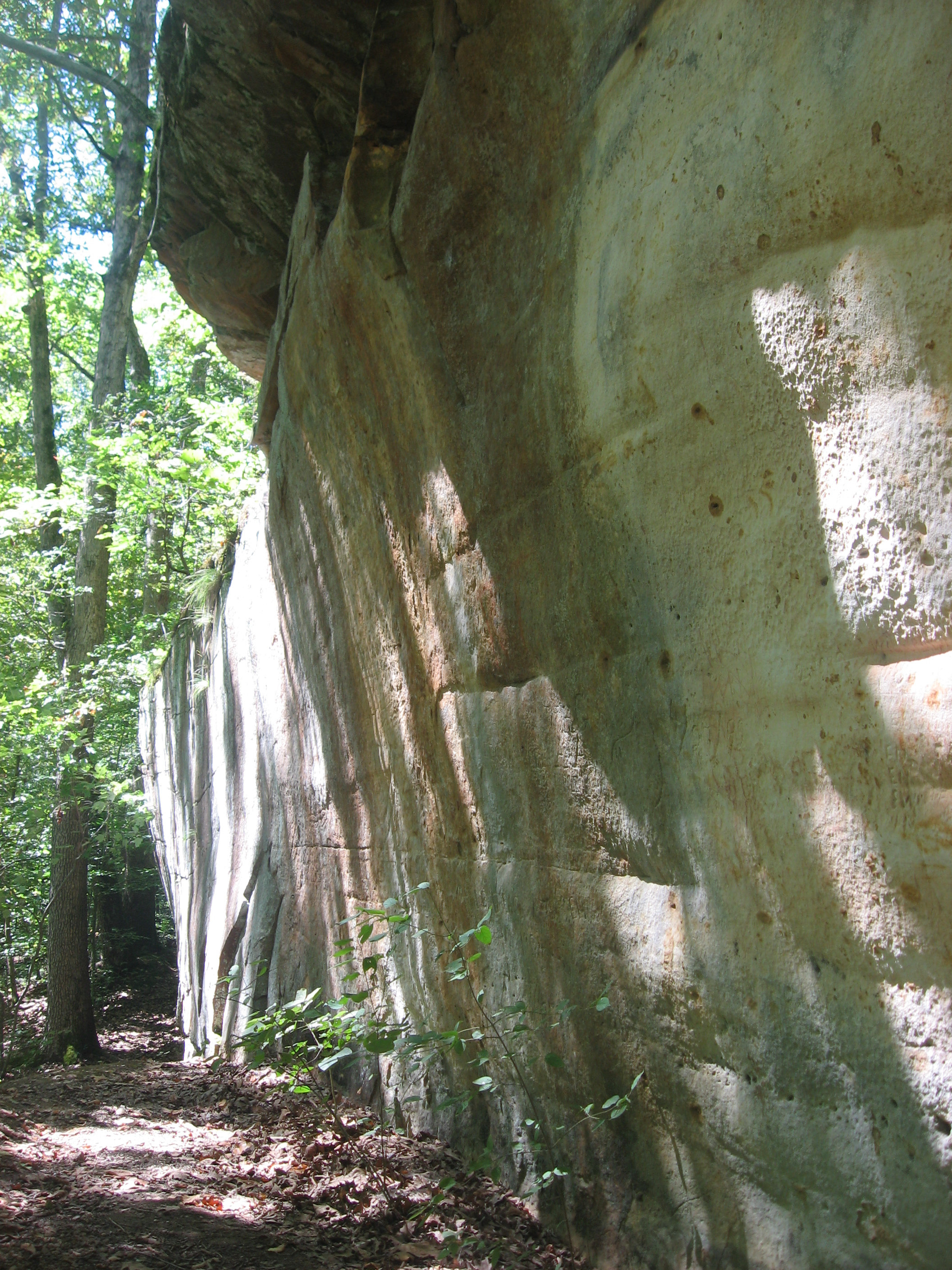 Overview of the main cliff at the Piney Creek Site, a major petroglyph site in the Piney Creek Ravine State Natural Area east of Chester in Randolph County, Illinois, United States. Unfortunately, photography cannot easily depict any of these petroglyphs. The site has been designated an archaeological site and is listed on the National Register of Historic Places.